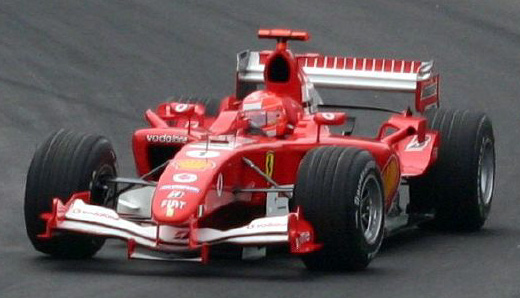 Michael Schumacher (Ferrari) at Canadian GP 2005